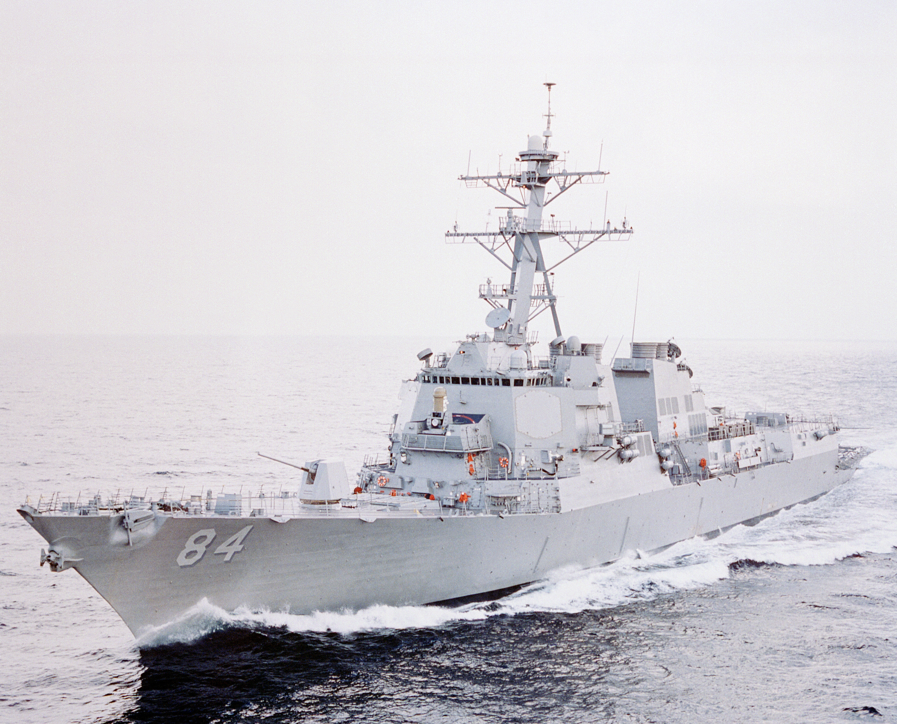 Starboard bow (45 degrees off centerline) view of the Arleigh Burke Flight IIA class guided missile destroyer USS BULKELEY (DDG 84) underway on builderÕs sea trials.